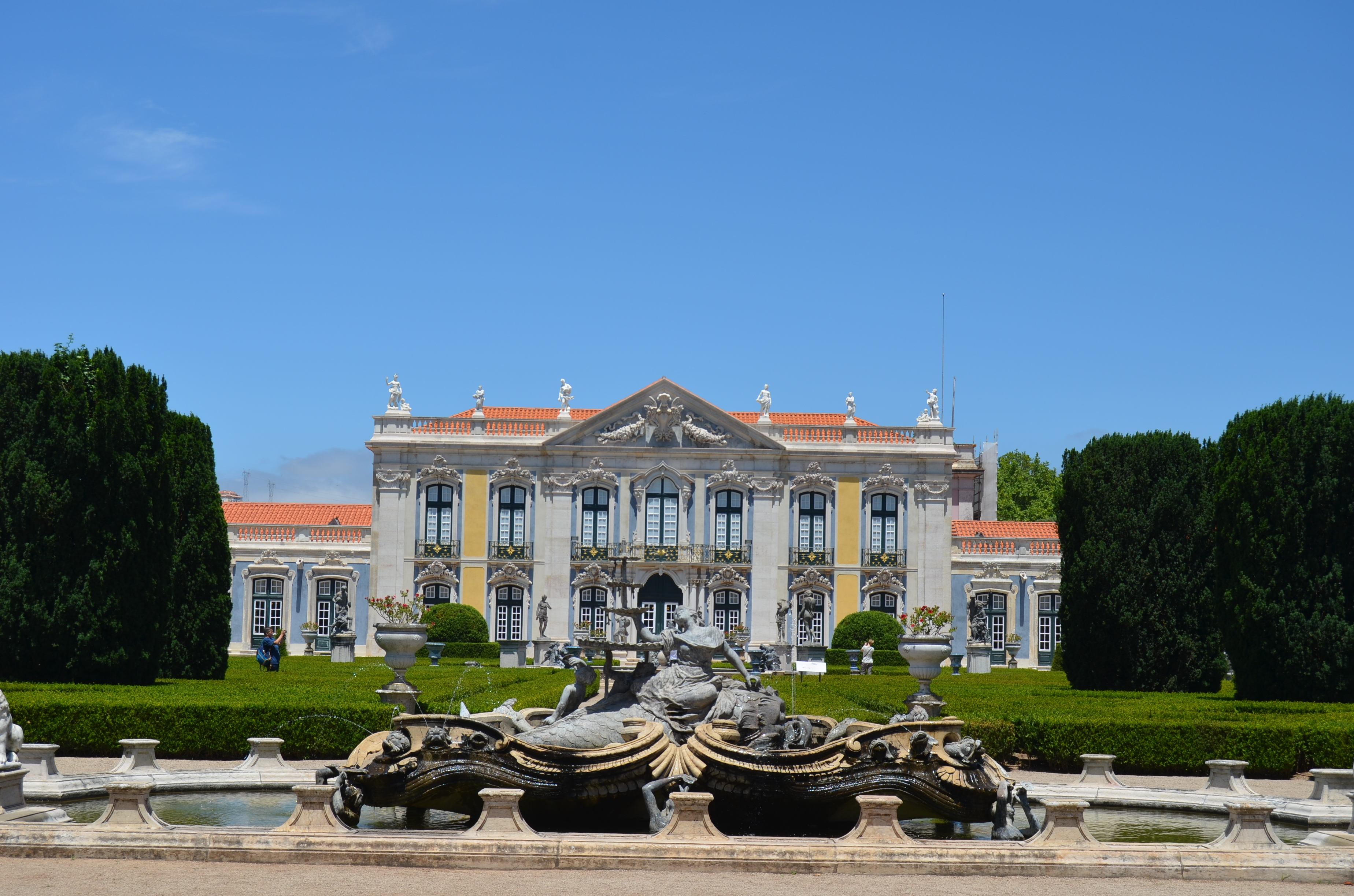 Eternal beauty